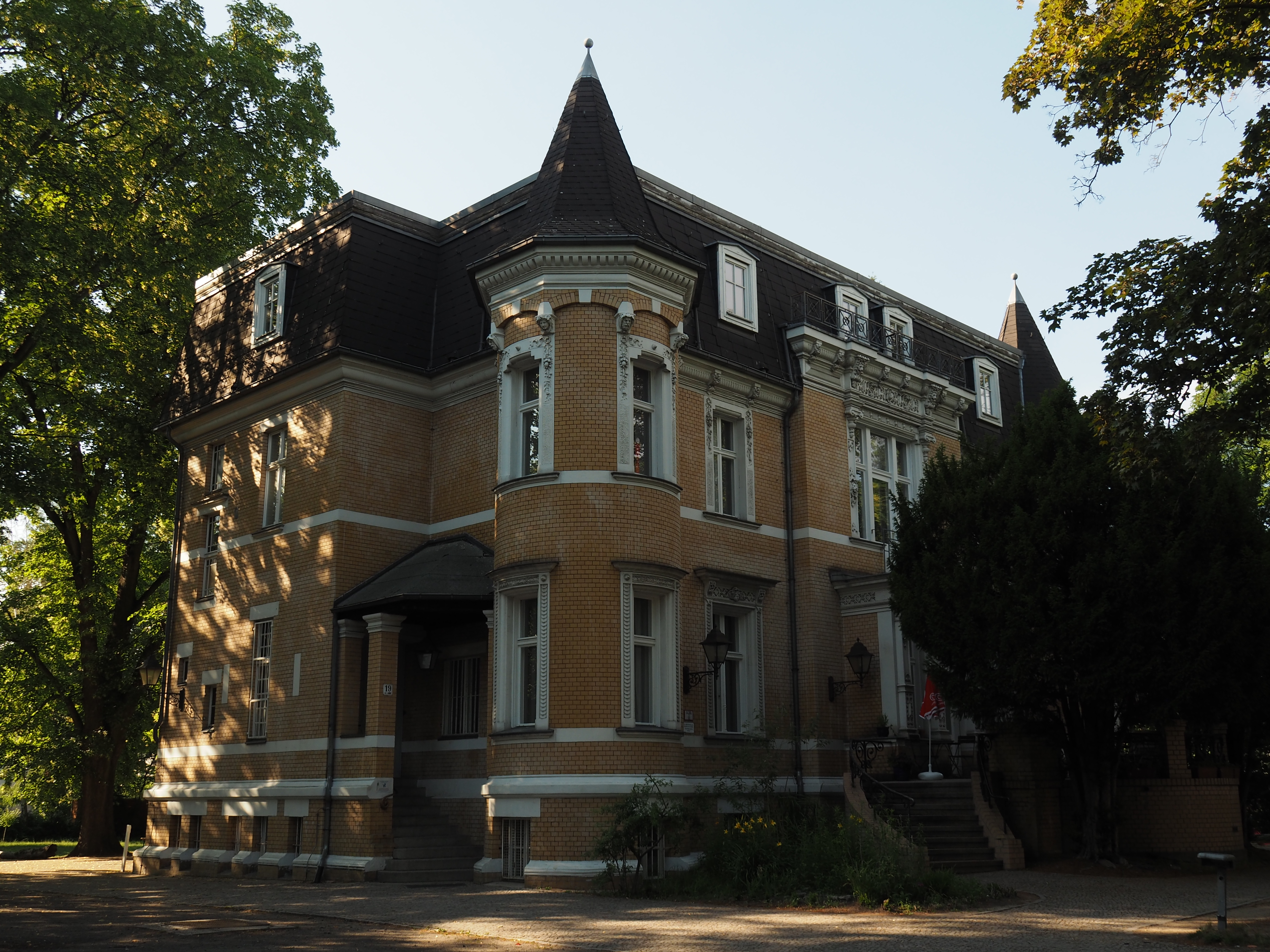 Villa Folke Bernadotte